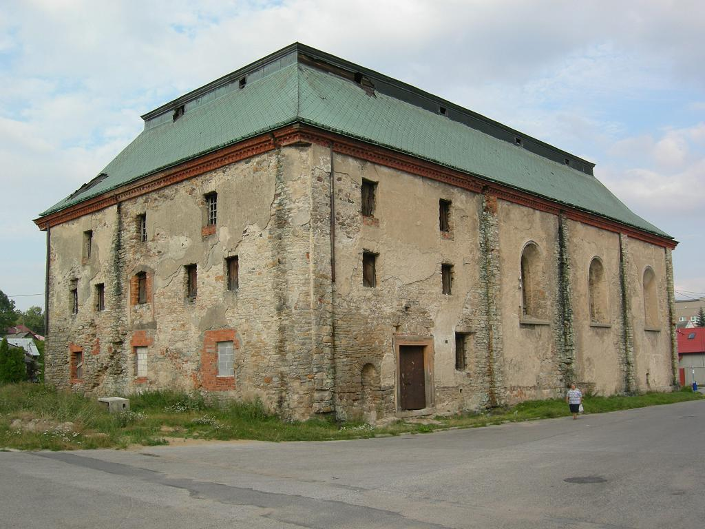 Synagoga w Przysusze, Polska.